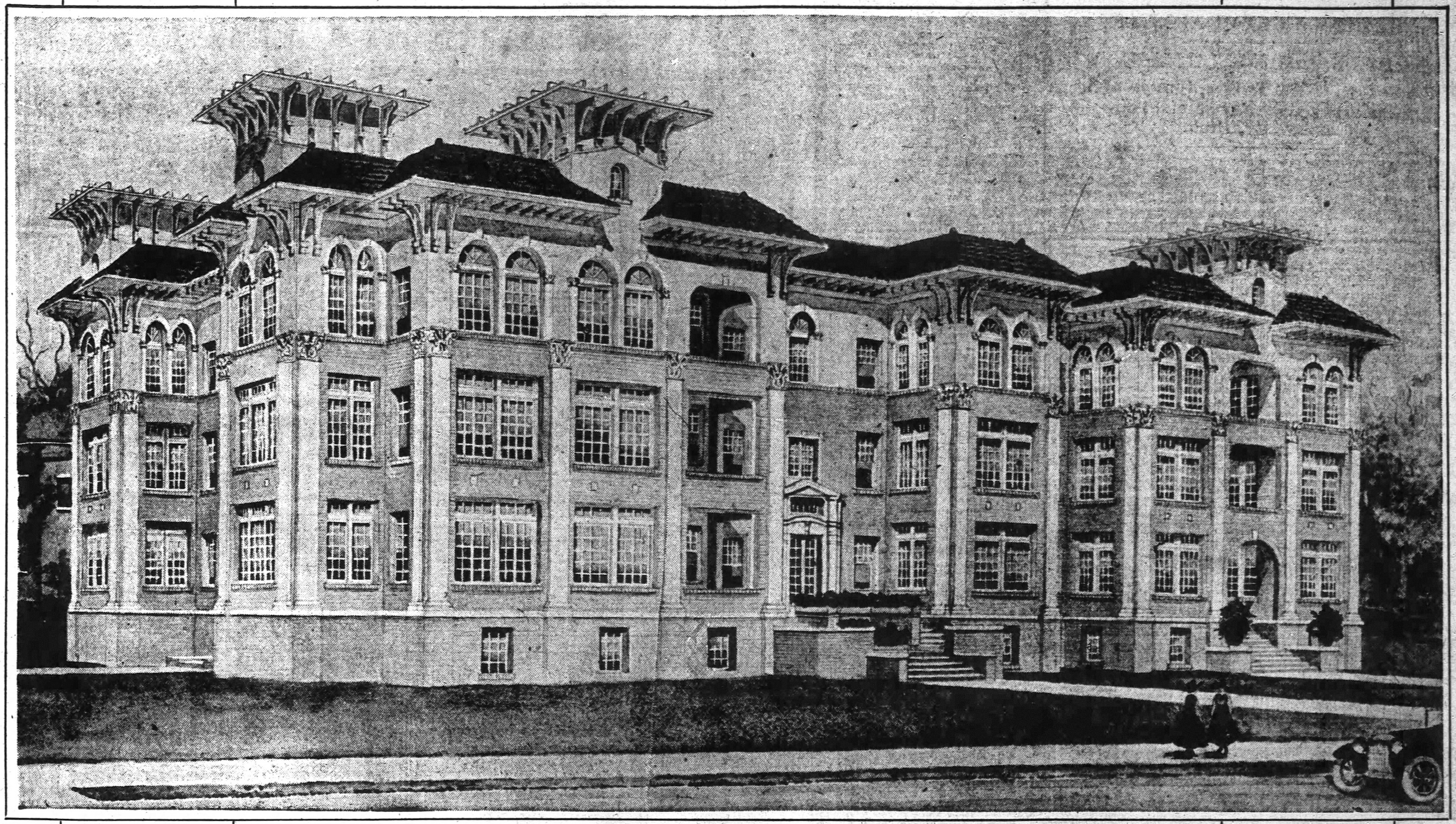 Druid Apartments ad in Atlanta Constitution June 24, 1917